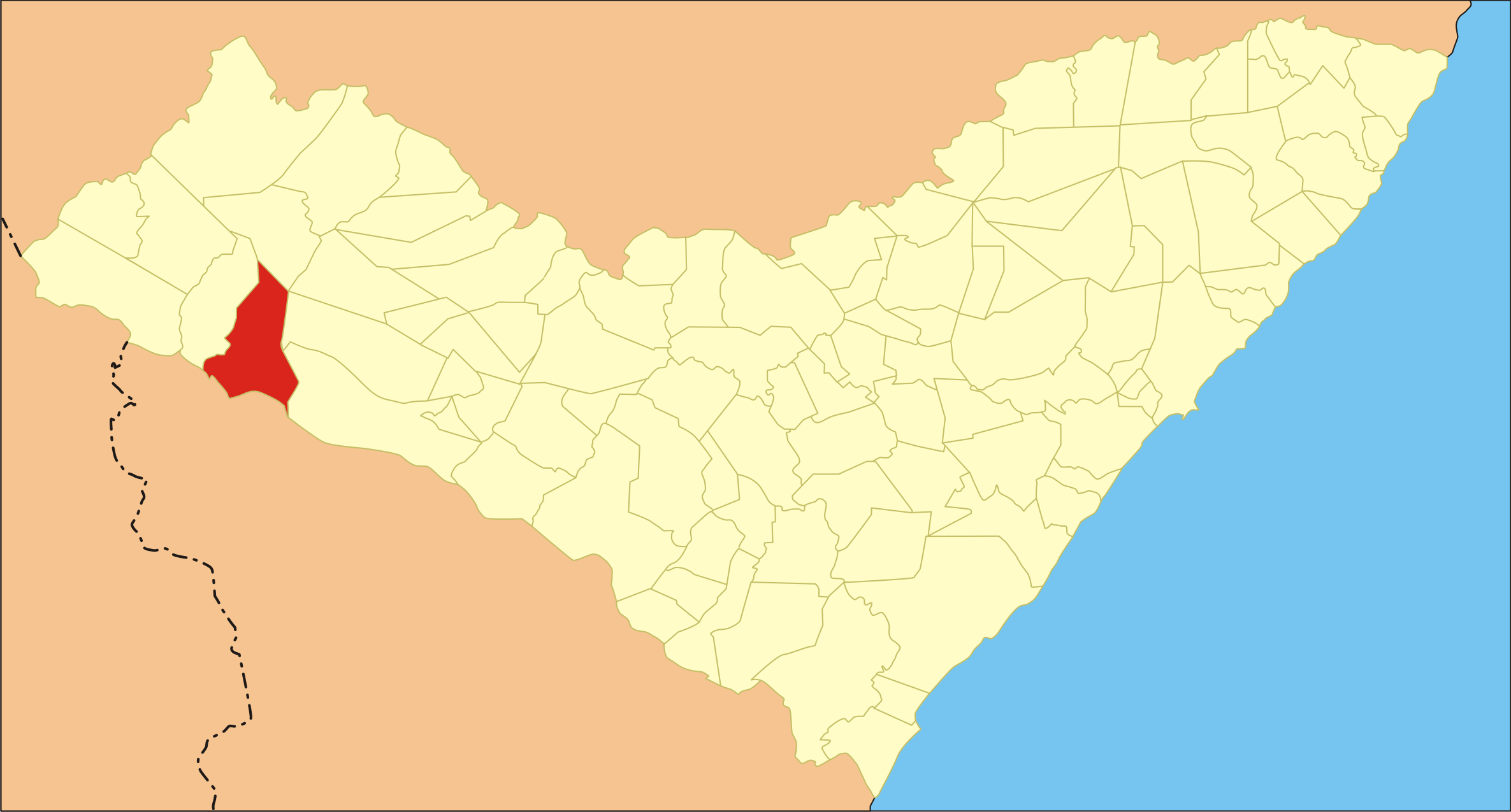 City localization in Alagoas